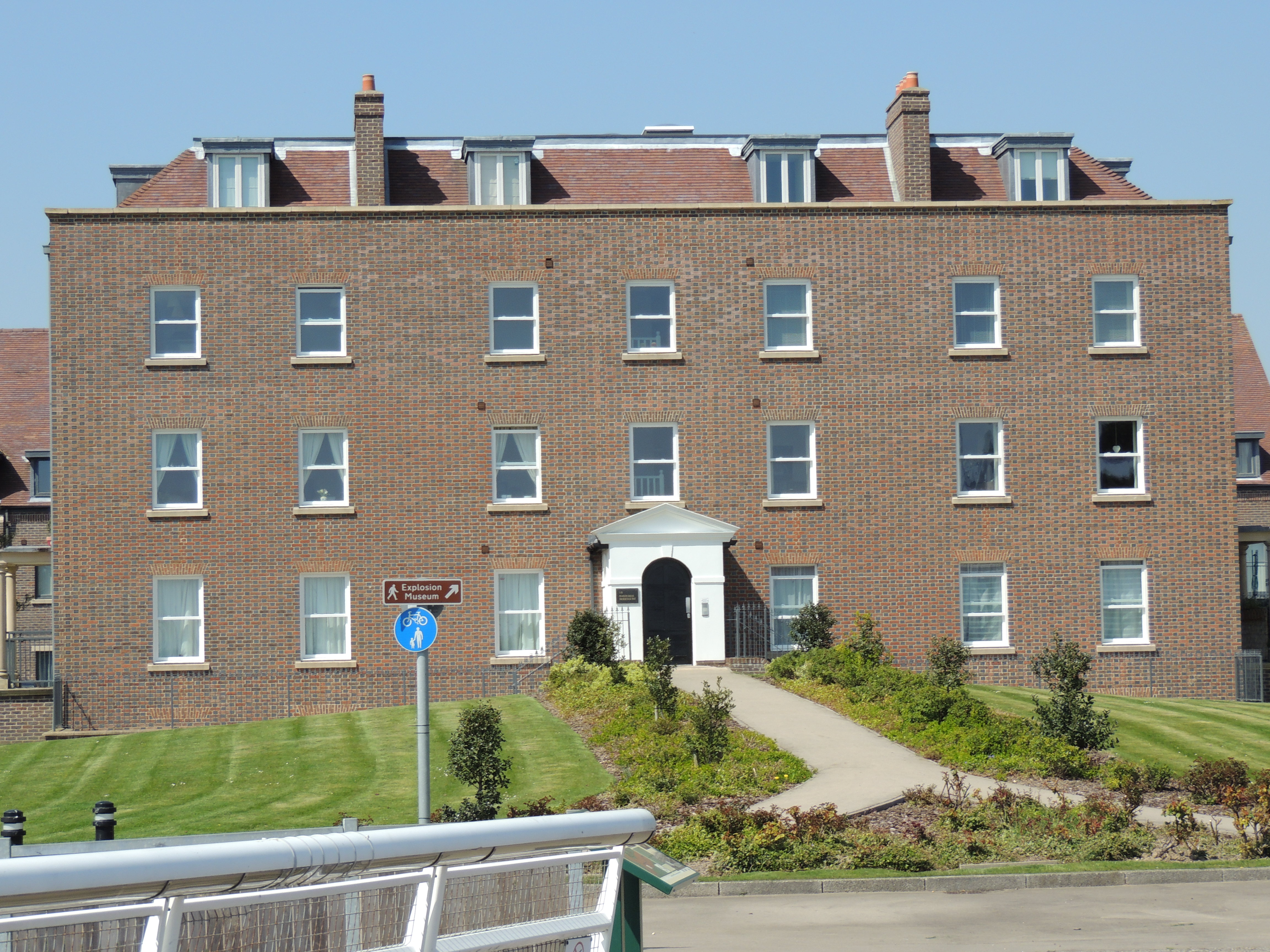 Hardway